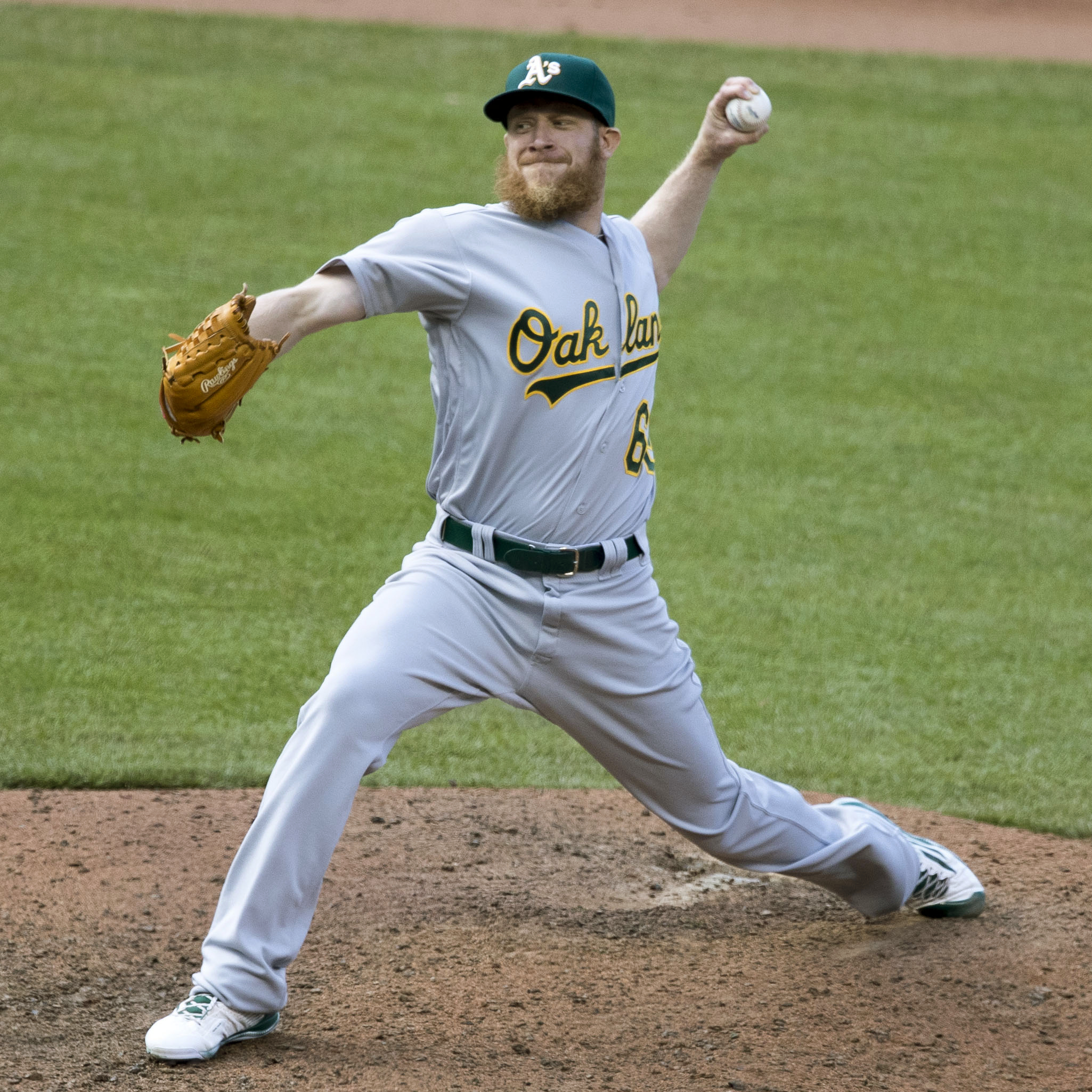 Sean Doolittle